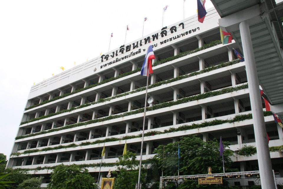 tepleela